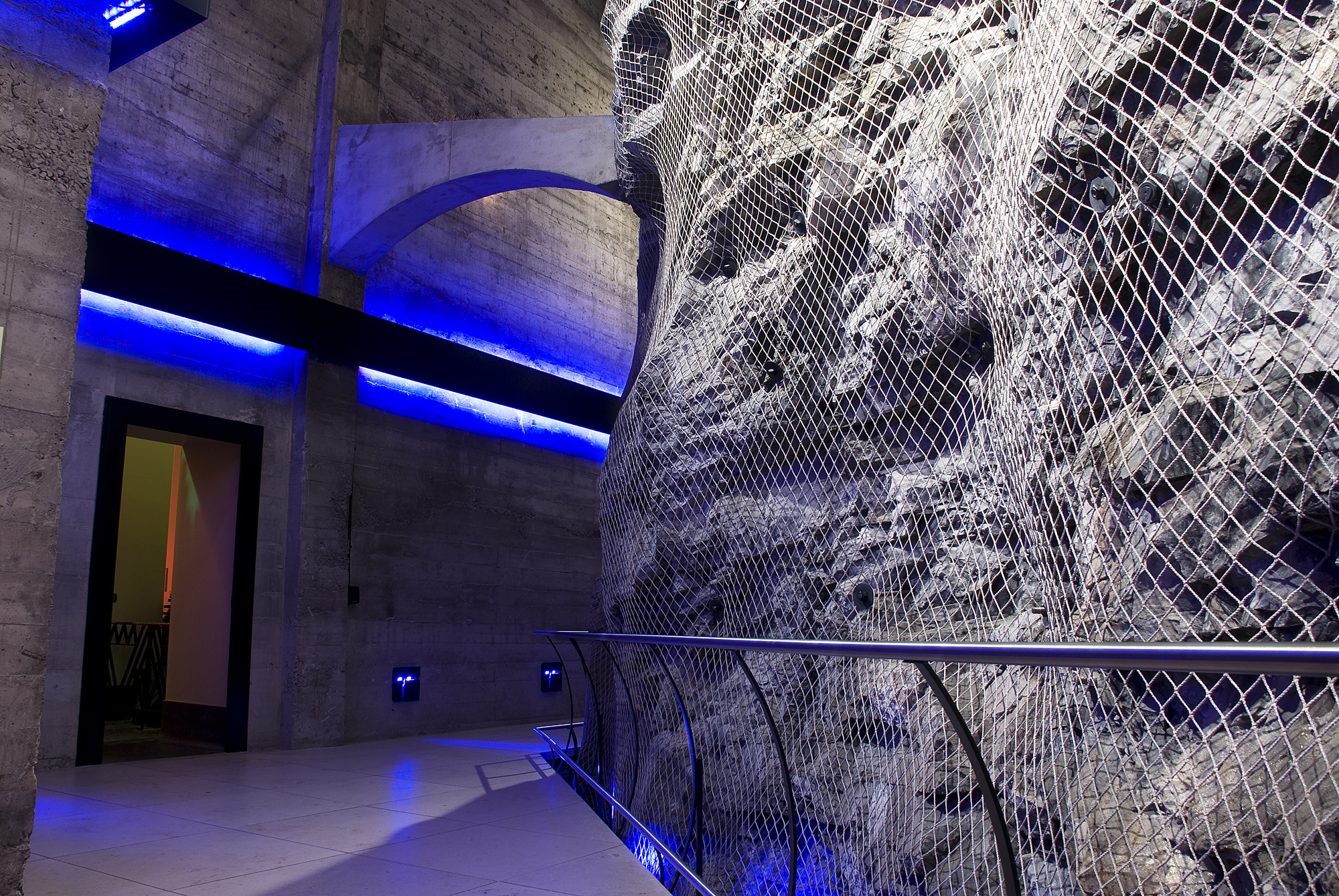 Elevator room in the Oratoire Saint-Joseph du Mont-Royal. Montreal, Quebec, Canada.